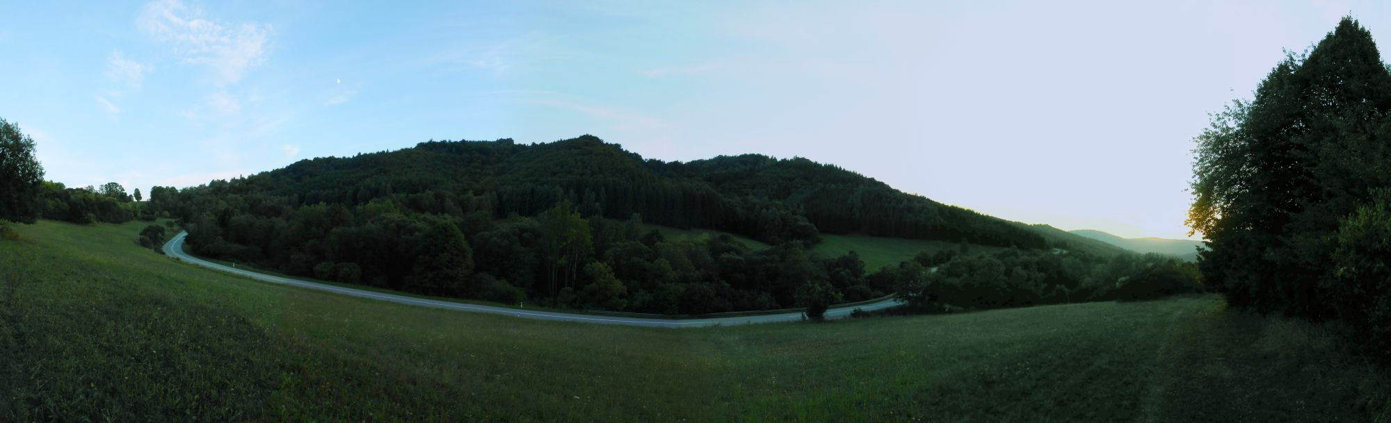 Road II/558 near Príslop, Slovakia